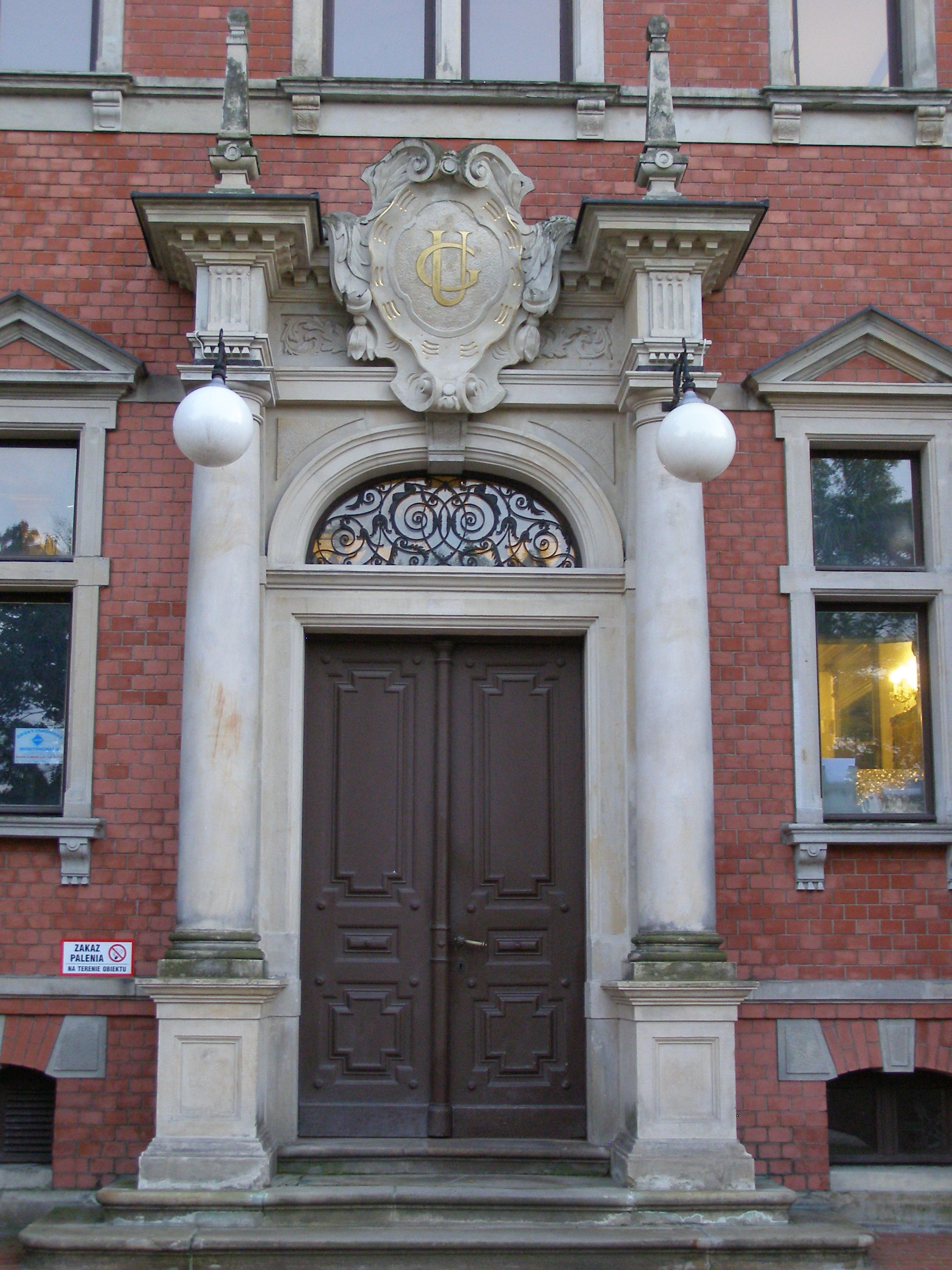 Leźno - palace, portal